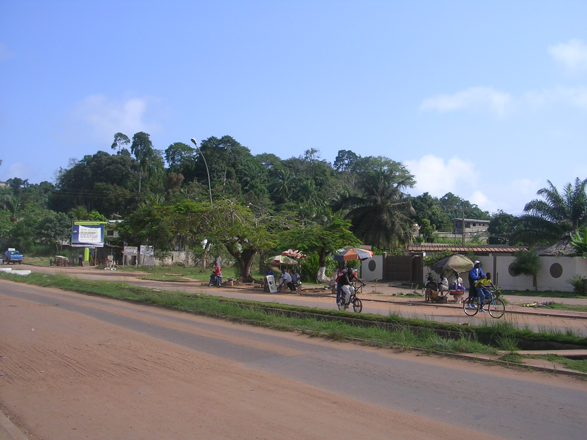 Access road to the city.